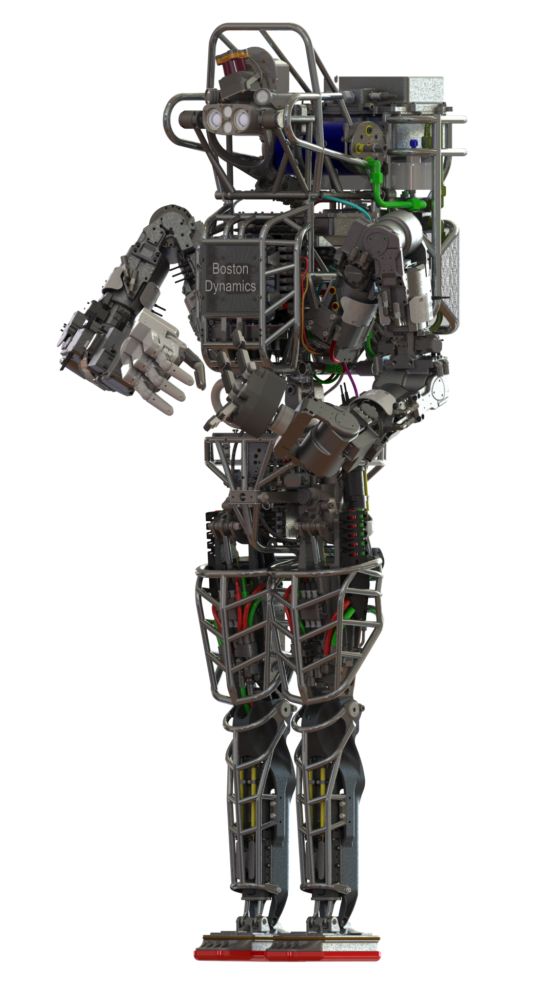 A high-resolution computer drawling of the Atlas robot designed by Boston Dynamics and DARPA, as seen from the front.